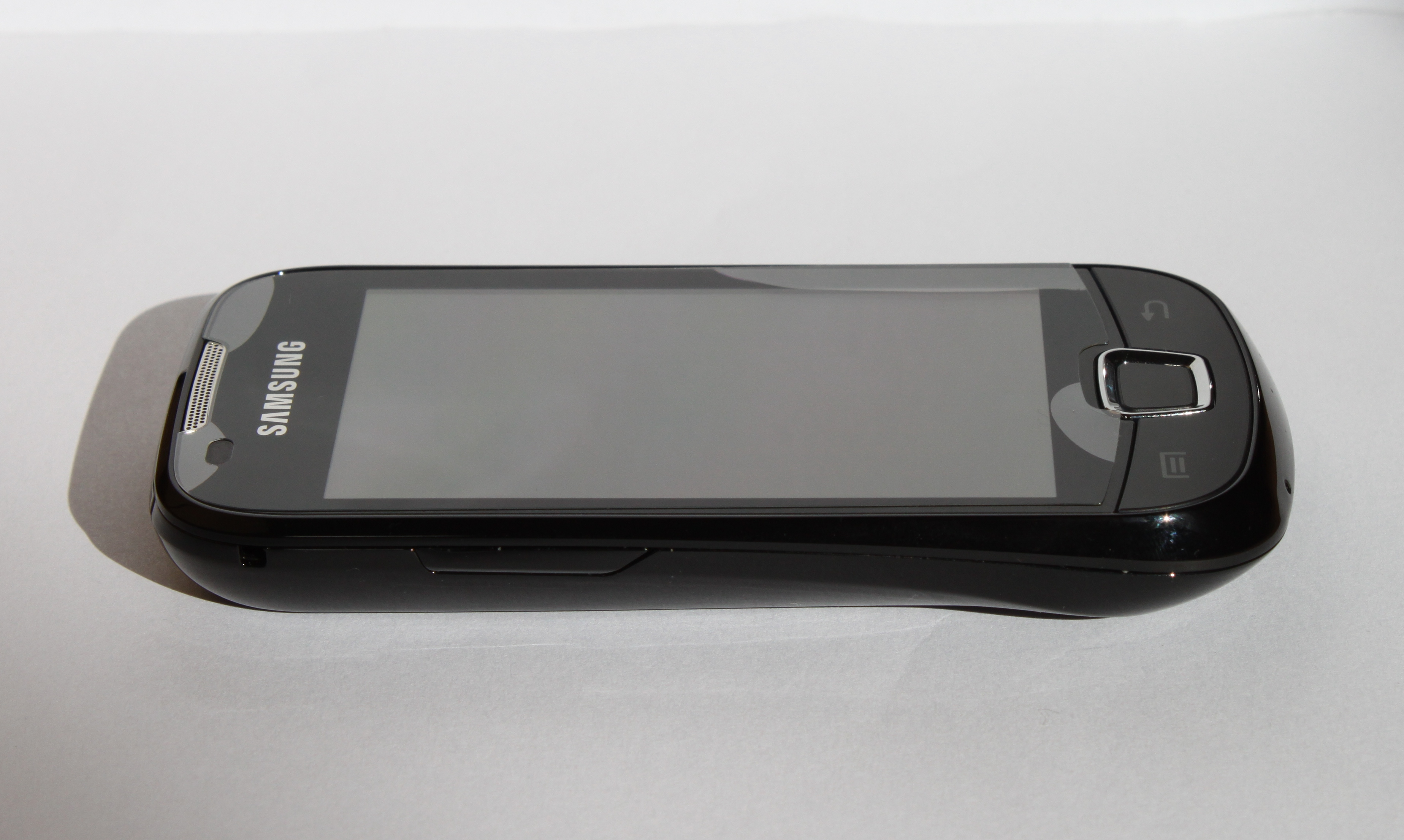 Samsung i5800 Galaxy 3